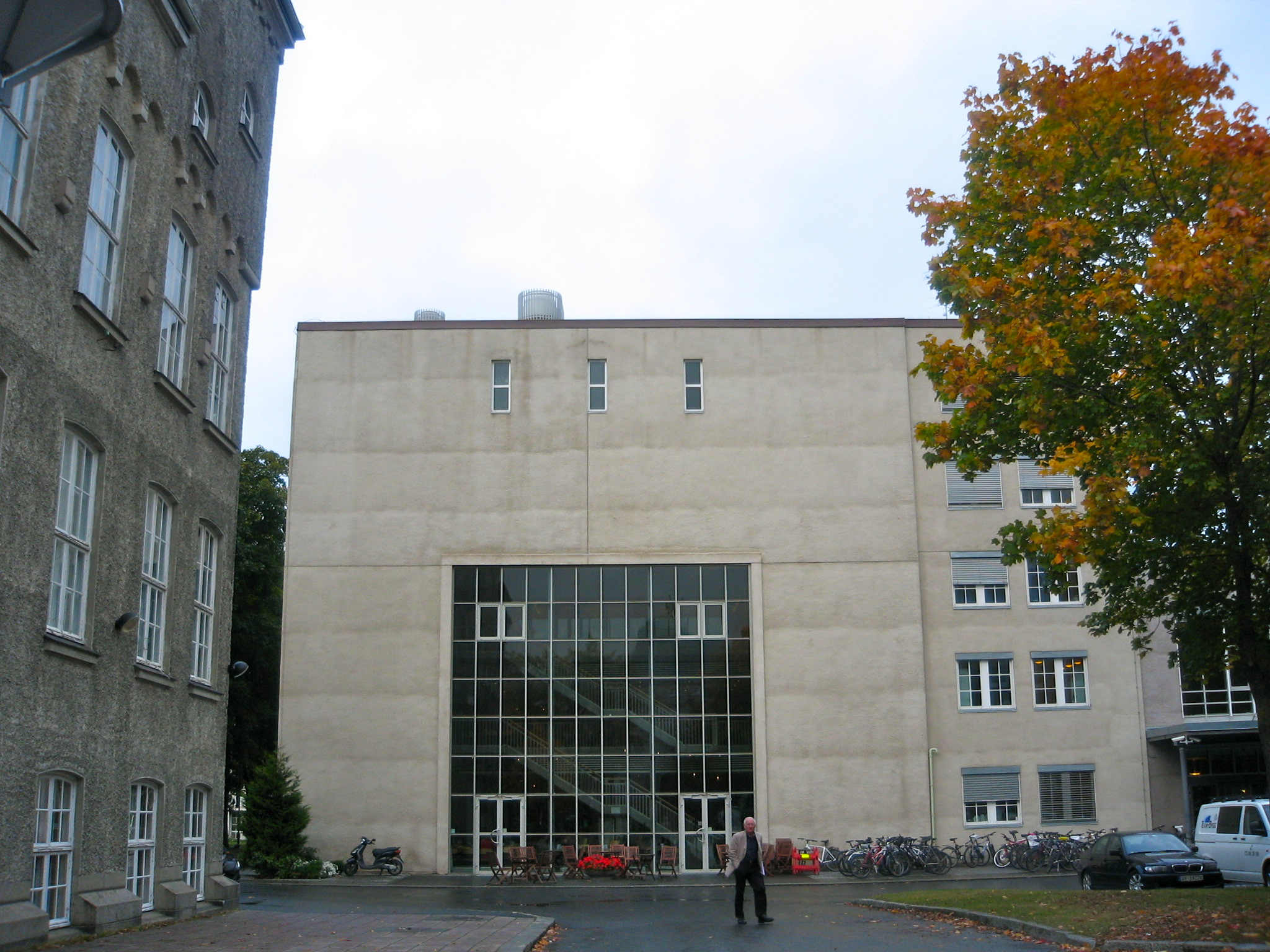 Kjelhuset (=the boiler house) at Campus NTNU Gløshaugen, Trondheim. Erected 1958. Architect: Roar Tønseth